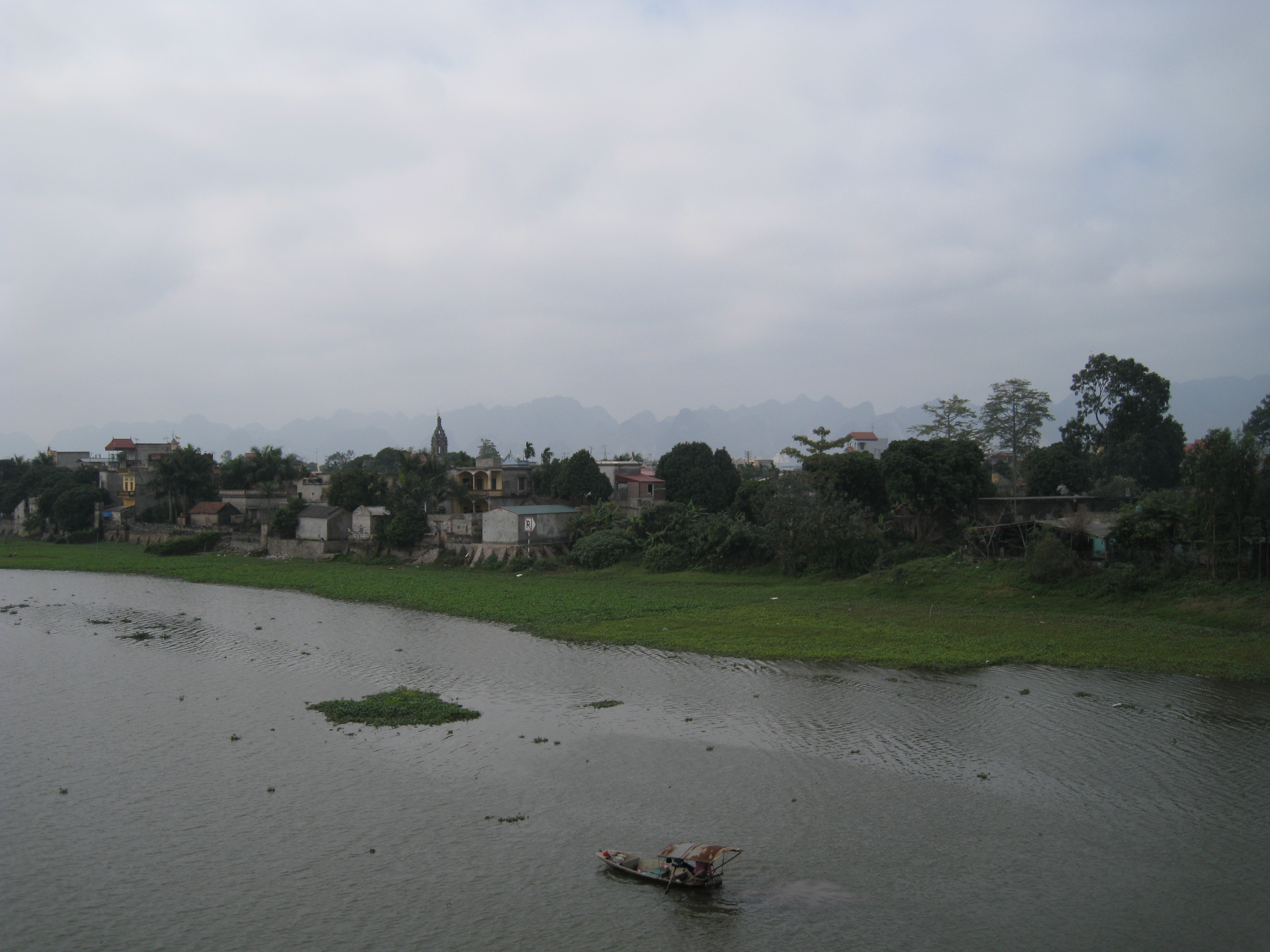 Phủ Lý City alongside Đáy River.